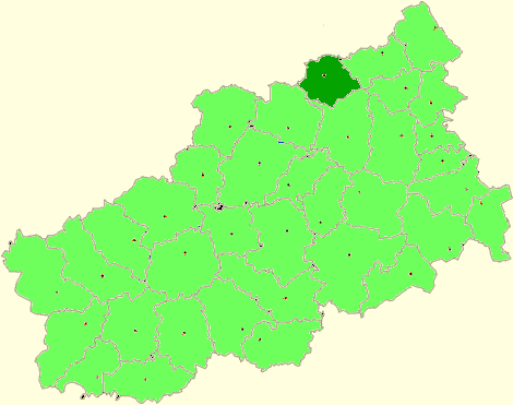 Tver Oblast map by Al Silonov